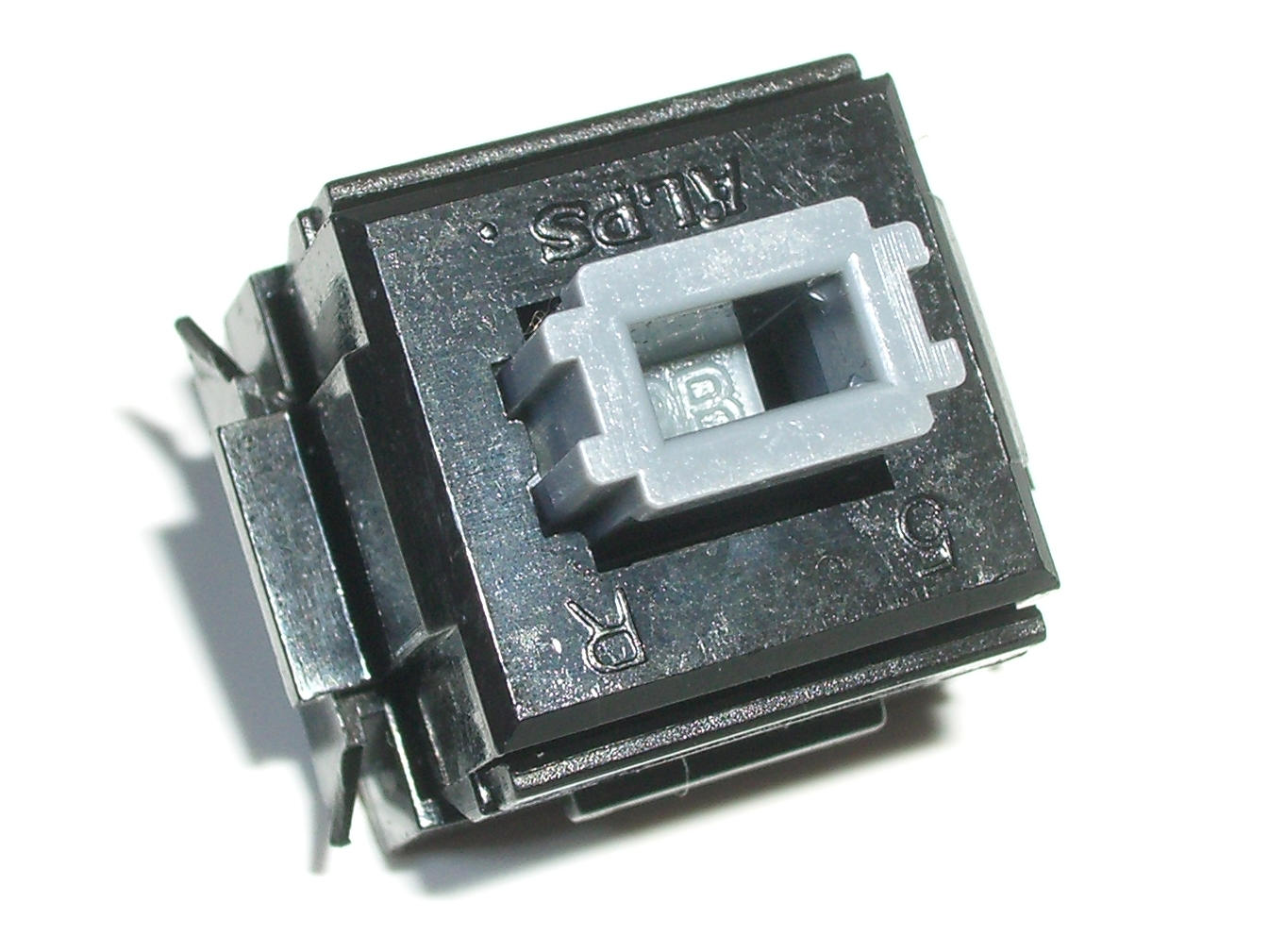 Alps SKBM Grey from a MrInterface sample kit (source keyboard unknown)